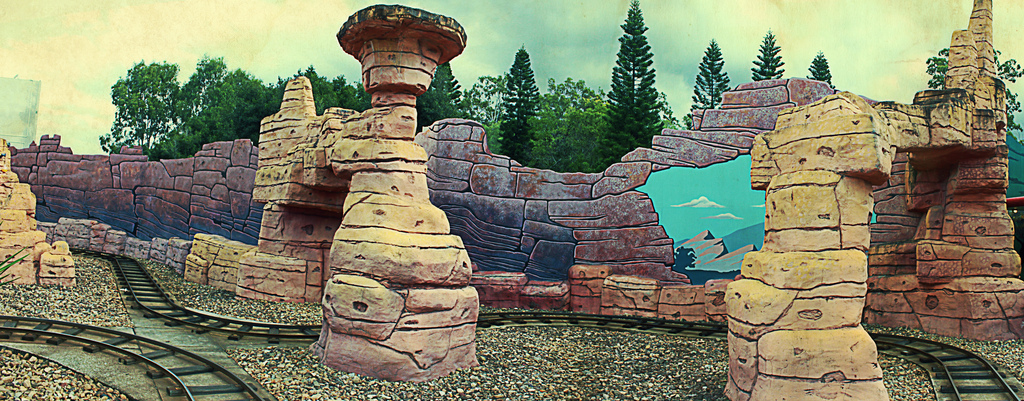 Yosemite Sam Railway within Kids WB Fun Zone at Warner Bros. Movie World on the Gold Coast, Australia.